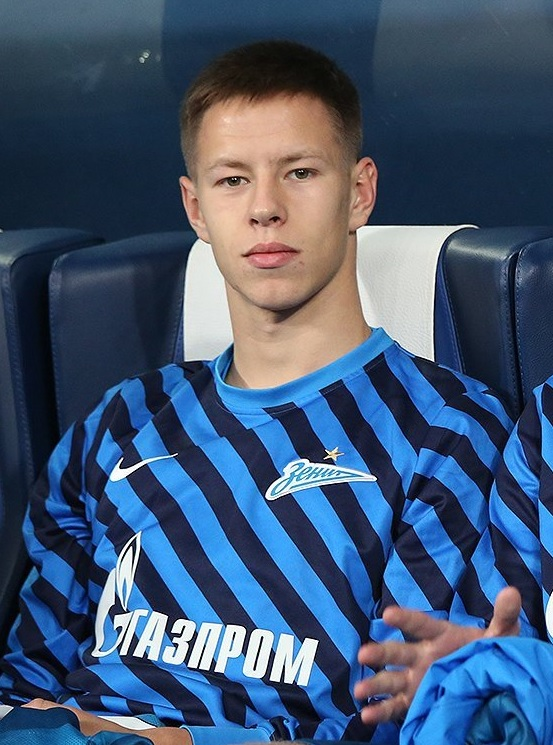 Danila Prokhin on the bench of FC Zenit Saint Petersburg during the game against FC Lokomotiv Moscow.